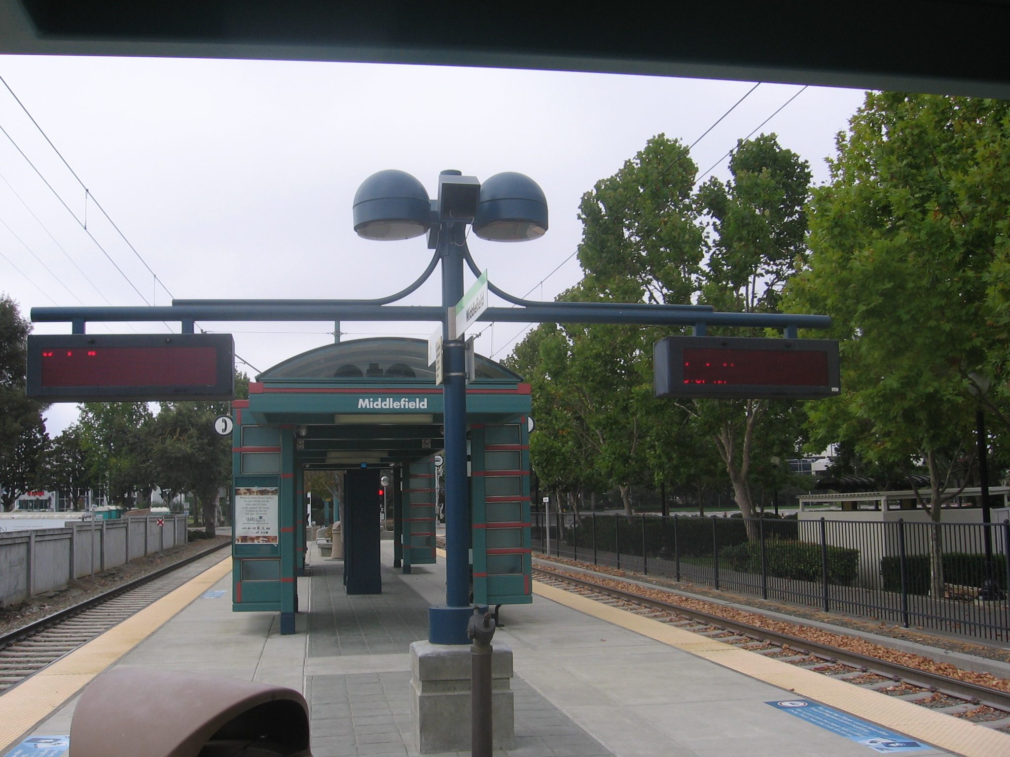 The Middlefield (VTA) light rail station in Mountain View, California, USA. View is looking south-southwest toward Middlefield Road.